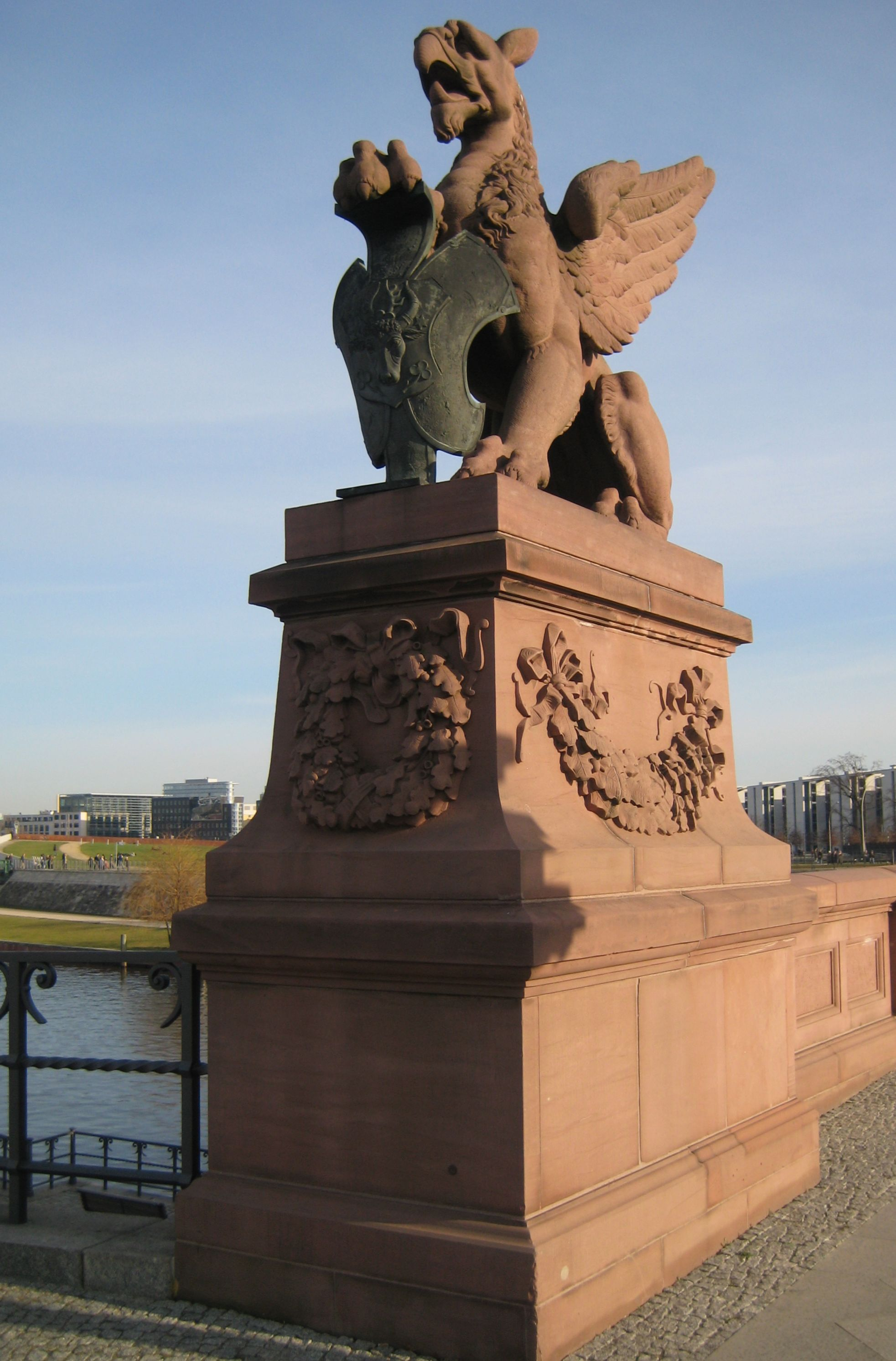 Moltkebrücke in Berlin, sculpture of a griffin by Carl Piper (1888–1891)